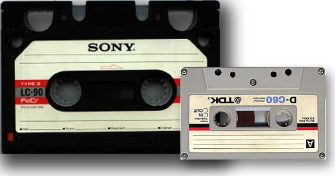 Size comparison of Elcaset with standard compact audio cassette - composite image created for use with the Elcaset article. Freely given to wikipedia.